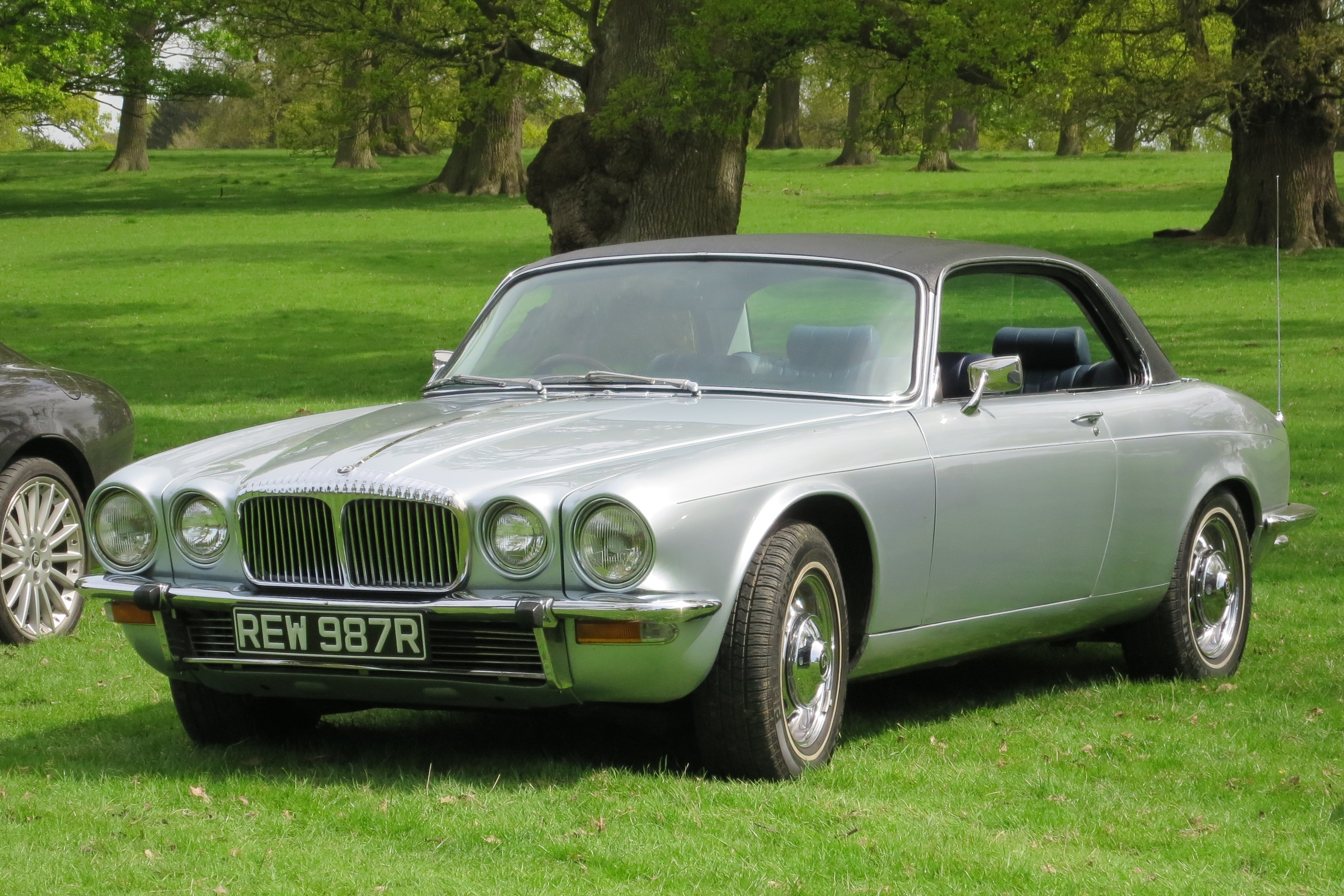 Daimler Sovereign Coupe (1977) at Woburn (2015)